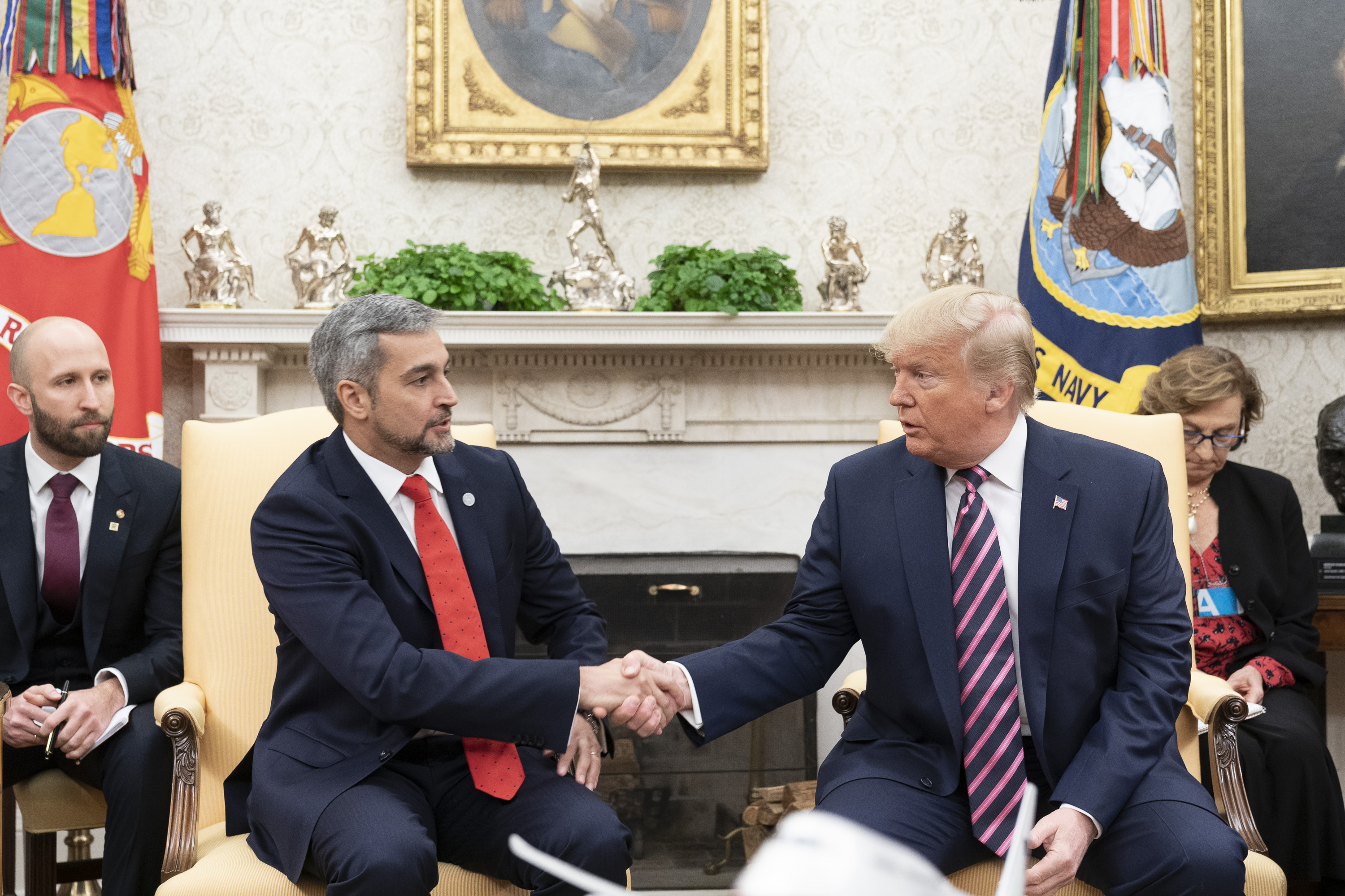 President Donald J. Trump welcomes Paraguay President Mario Abdo Benitez Friday, Dec. 13, 2019, to the Oval office of the White House. (Official White House Photos by Joyce N. Boghosian)